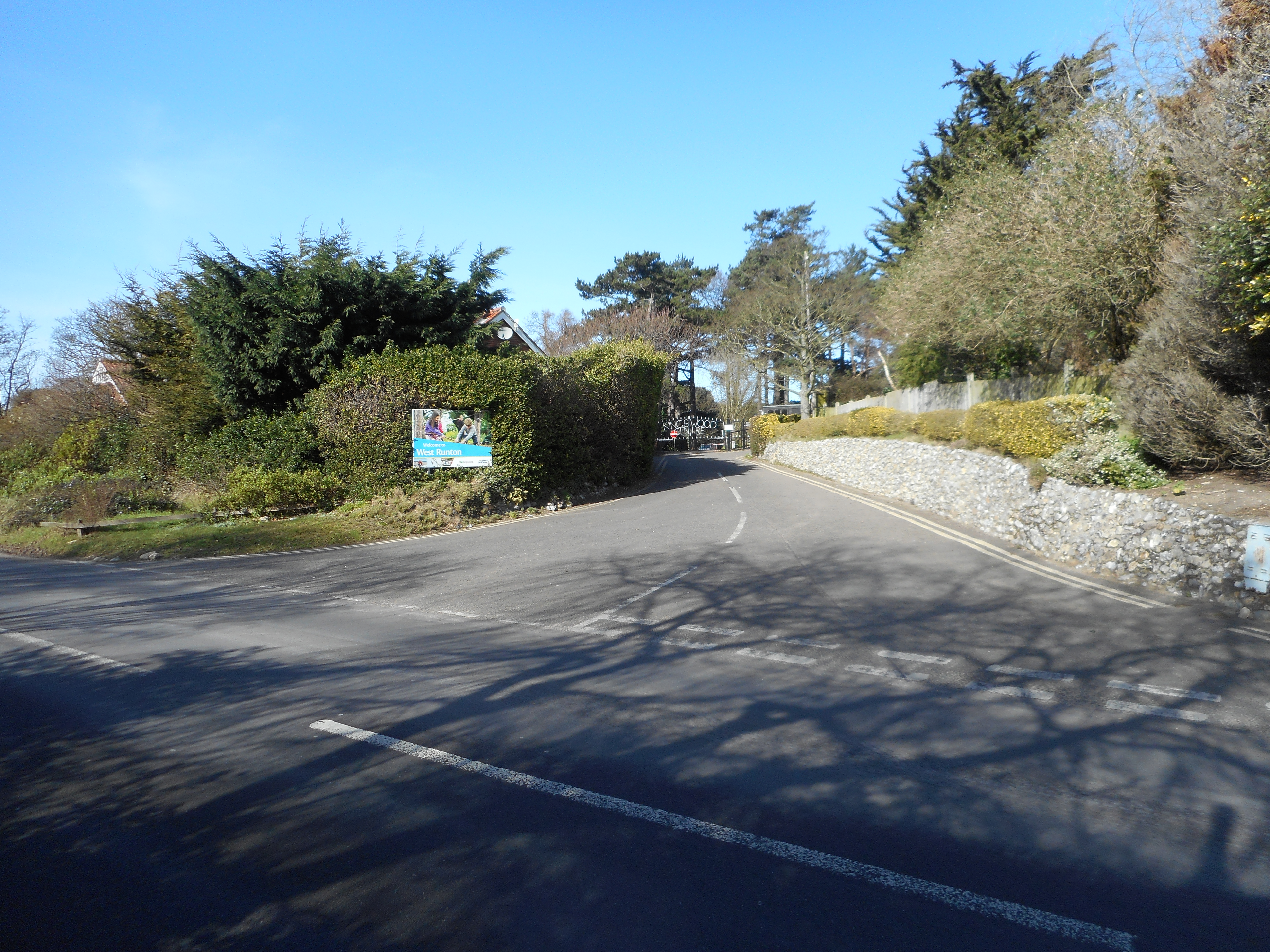 Kingswood residential learning centre and summer camp is located on Cromer Road, West Runton, Norfolk, United Kingdom.